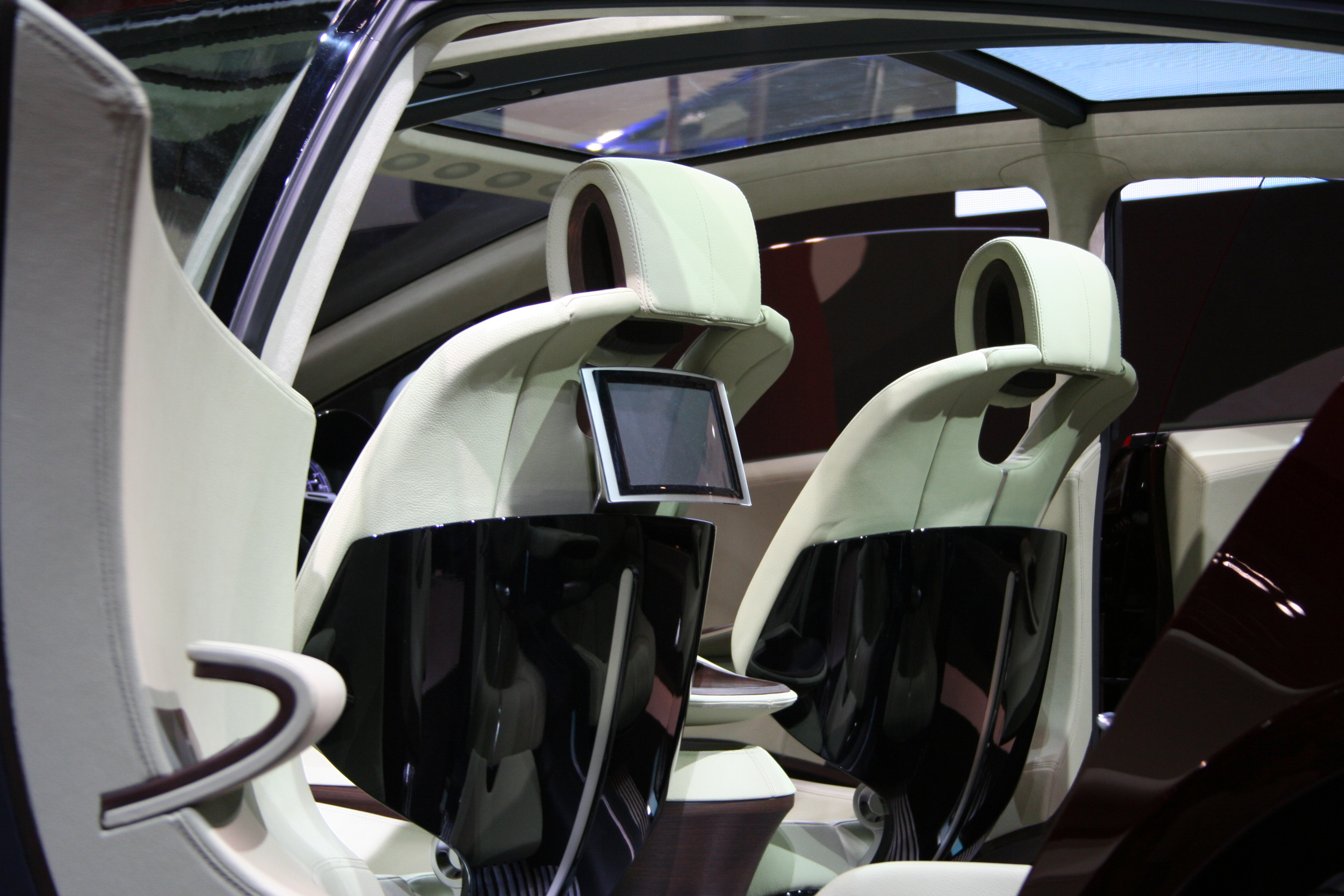 Honda FCX at the 2005 Tokyo Motor Show